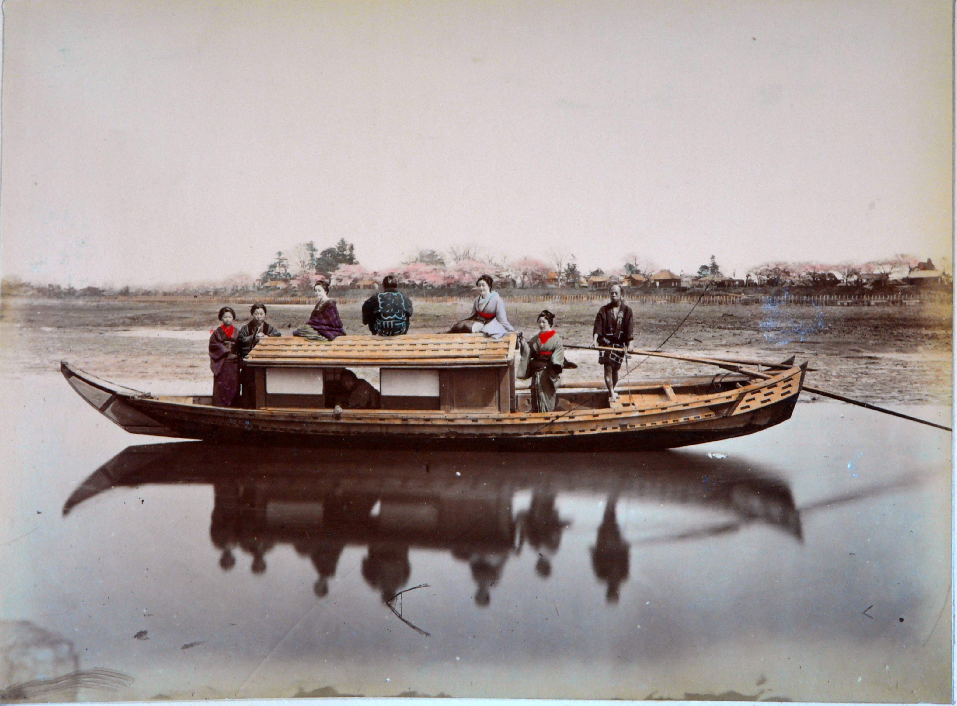 Painted photograph from Japan, dating from before 1886, according to a written note on the album containing the photographs. Presumed Author of the original photographs: Adolfo Farsari.